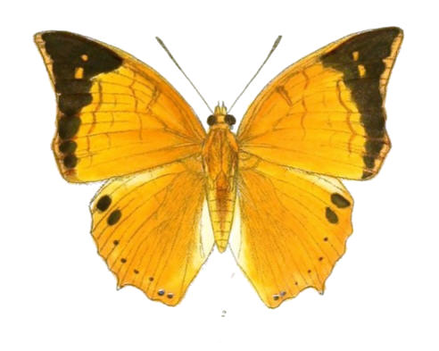 Haridra adamsoni